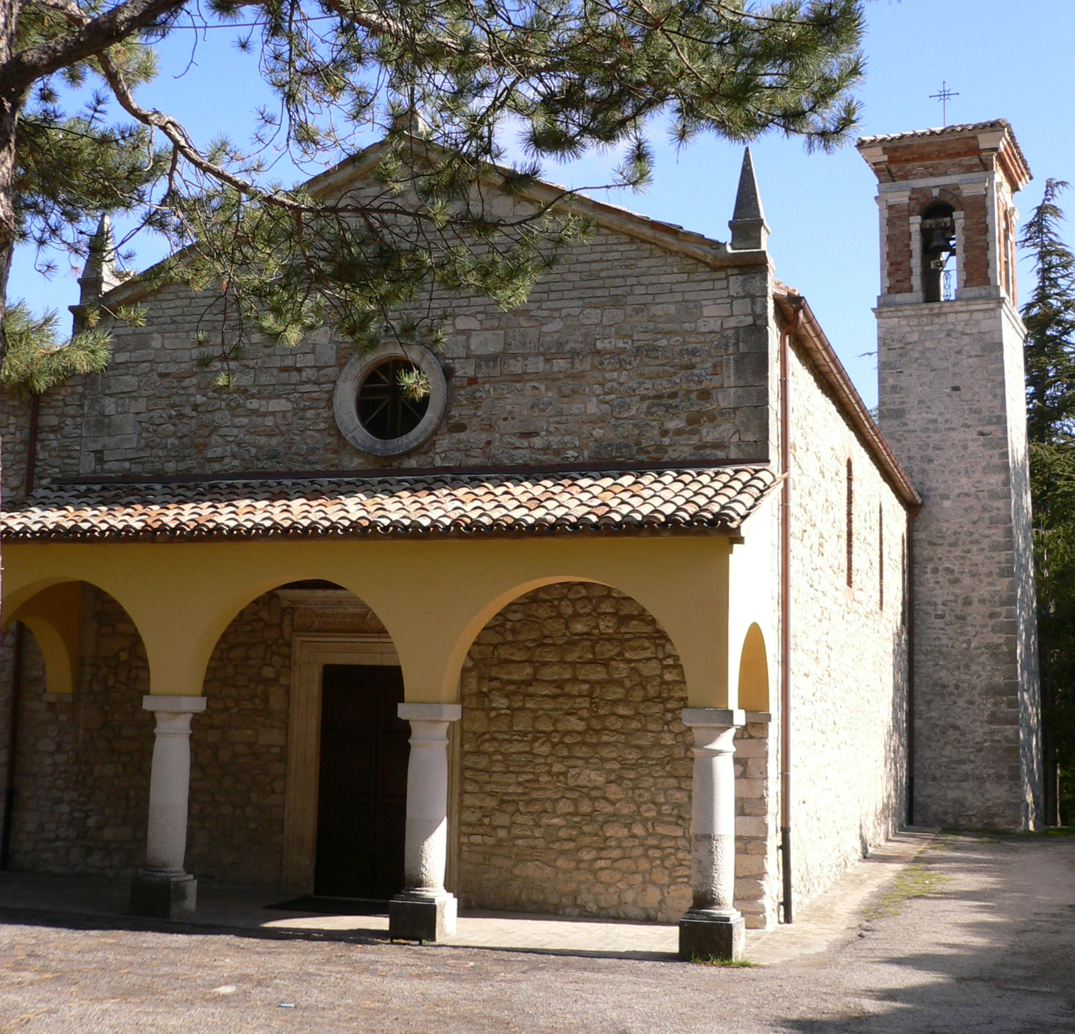 S.Maria in Val D'Abisso church, Piobbico (PU), Italy